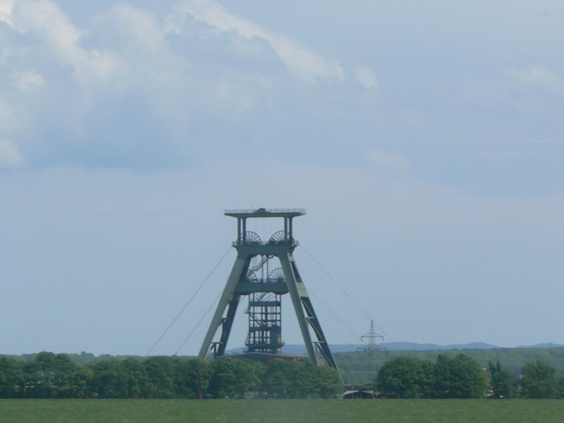 Winding tower of Konrad mine shaft number 1 ("Schacht Konrad": lit. Konrad shaft), a former iron ore mine in Salzgitter, Lower Saxony, Germany.